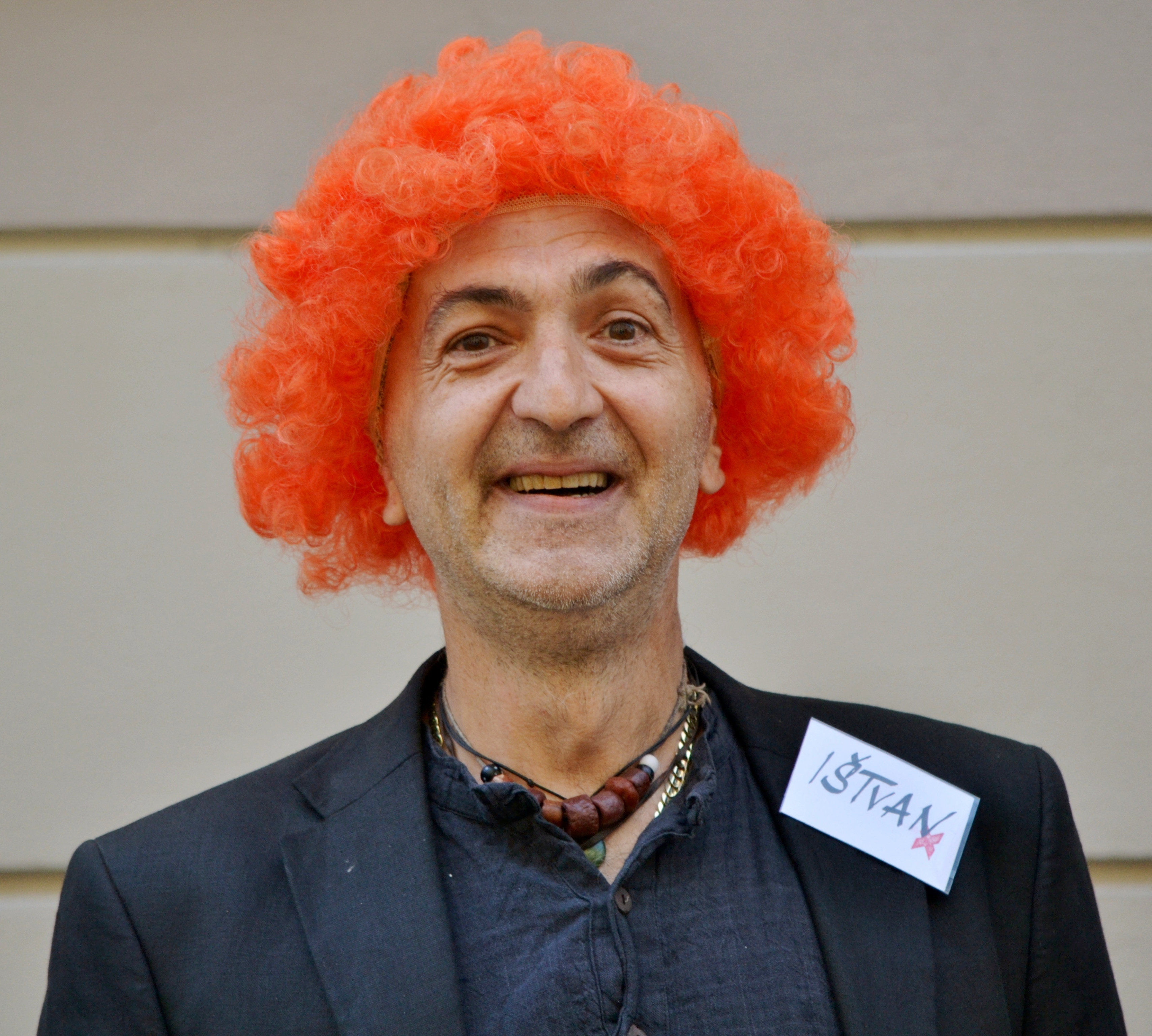 Jiří X.Doležal, Czech journalist